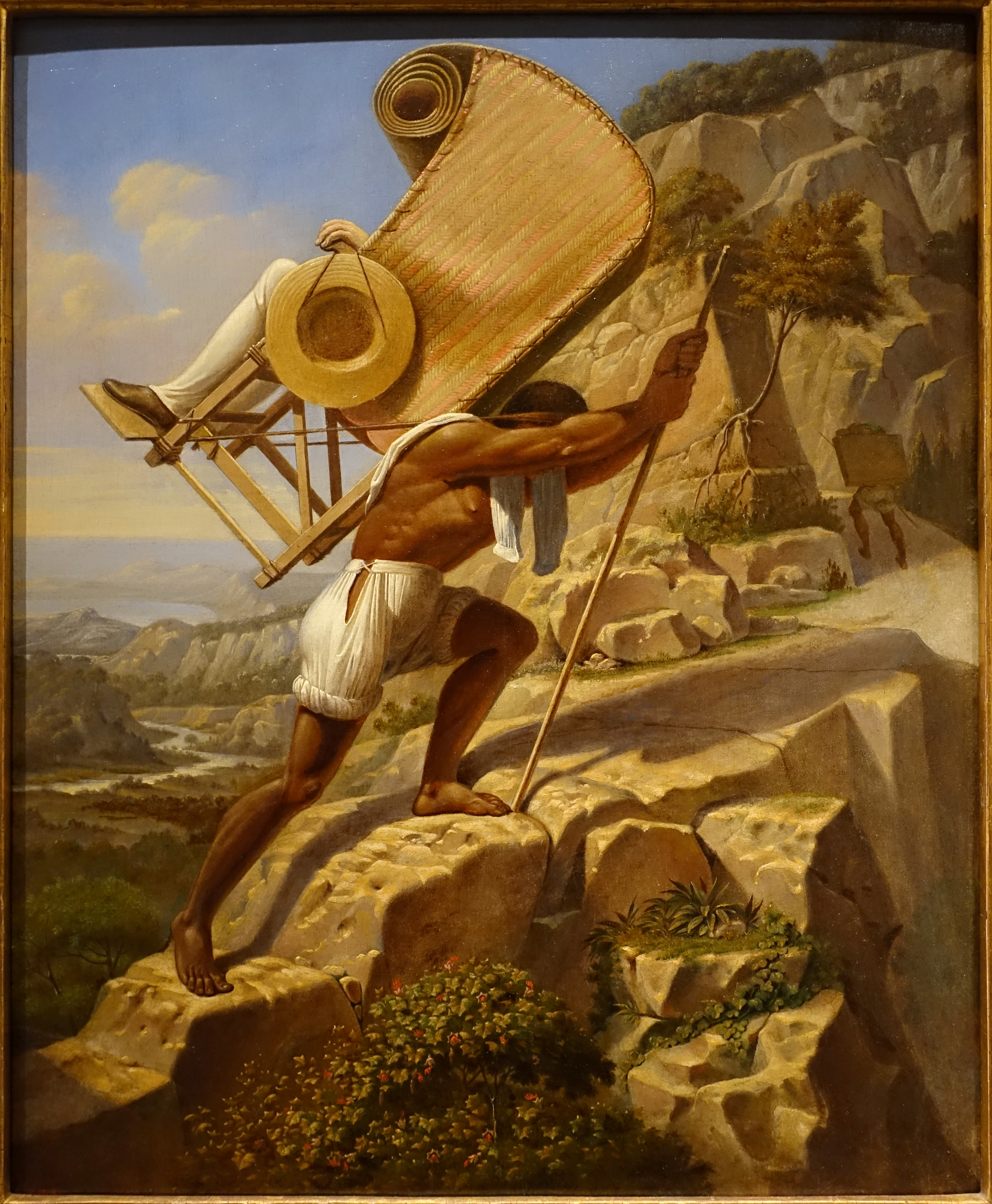 The artist carried in a sillero over the Chiapas from Palenque to Ocosingo, Mexico, by Johann Friedrich Waldeck Exhibit in the Princeton University Art Museum - Princeton University, Princeton, New Jersey, USA.